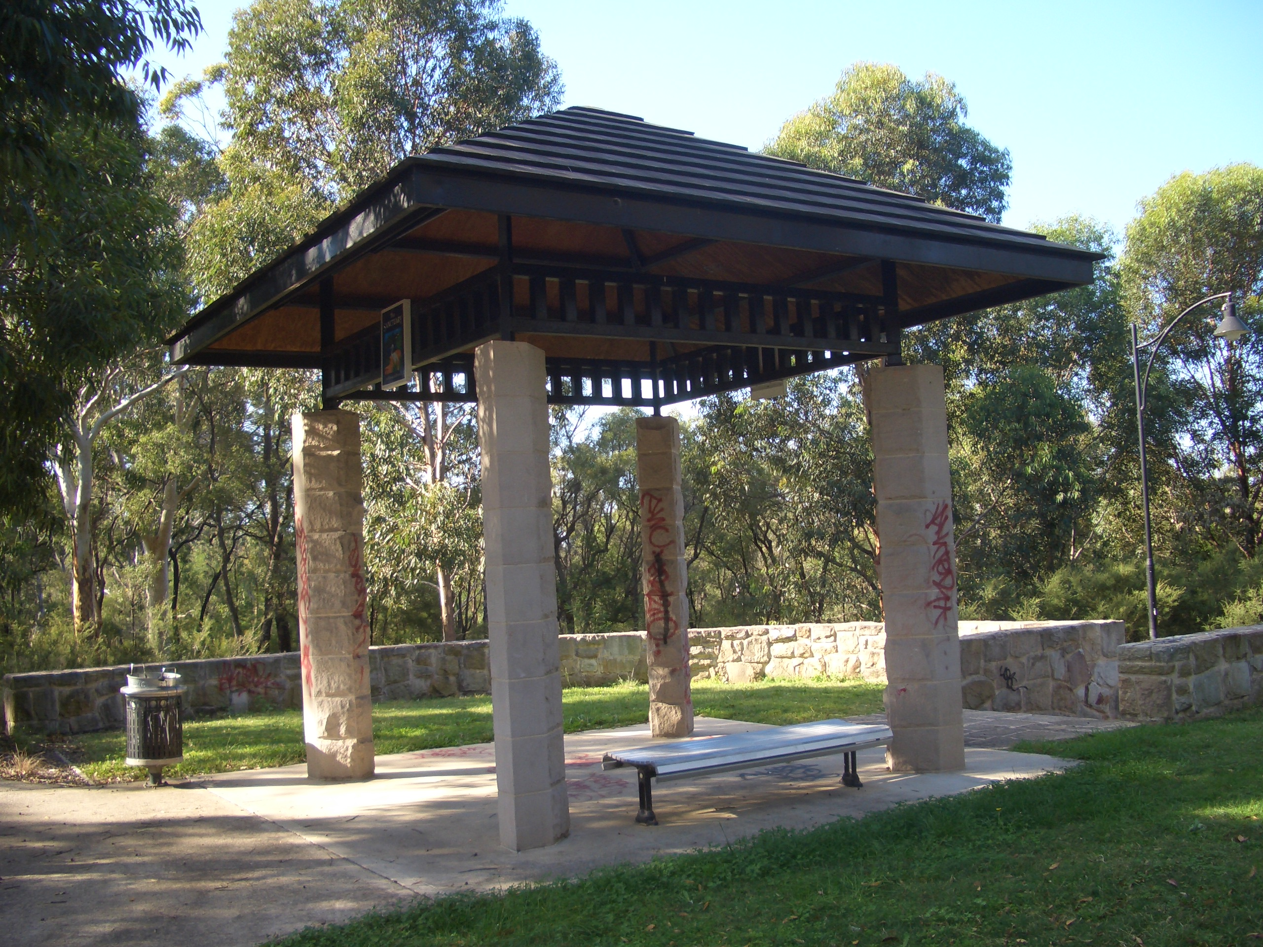 The Sanctuary at Voyager_Point, near the footbridge over Georges River